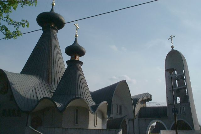 Poland, Hajnowka - Orthodox church.